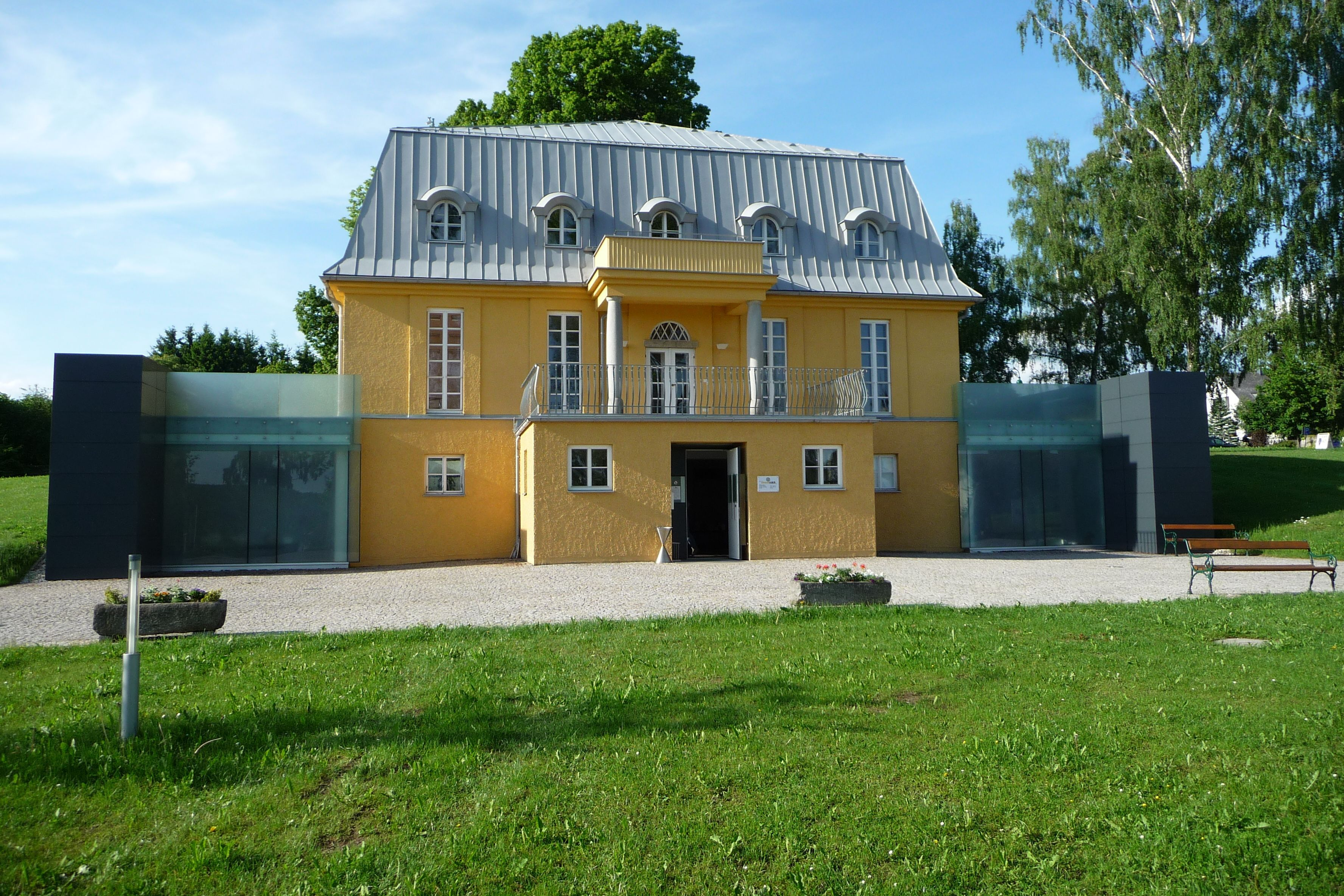 Villa Sinnenreich - Museum